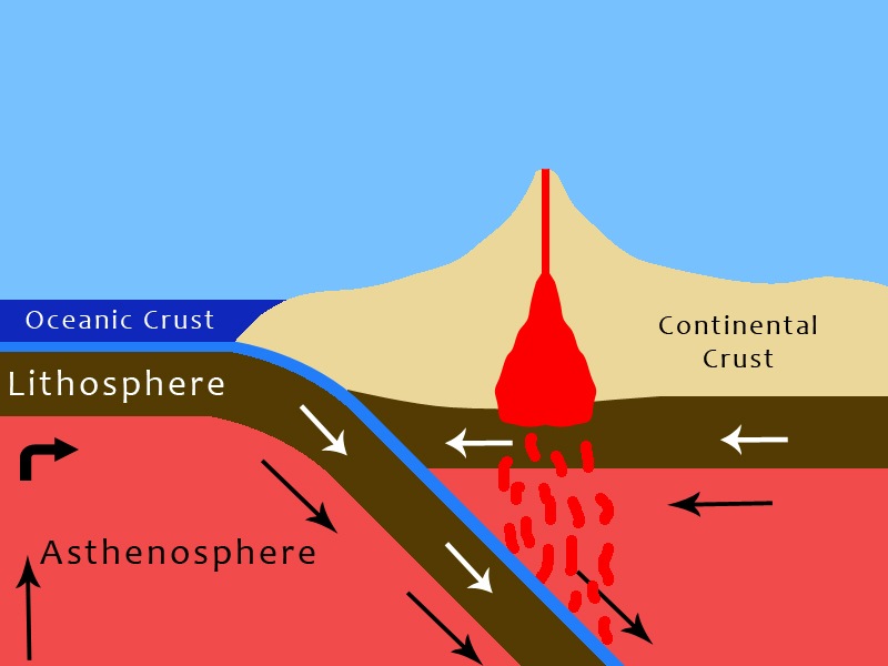 This is a cross section of a subduction zone that illustrates the subducting plate into the mantle which melts to form a magma chamber under the continental crust.